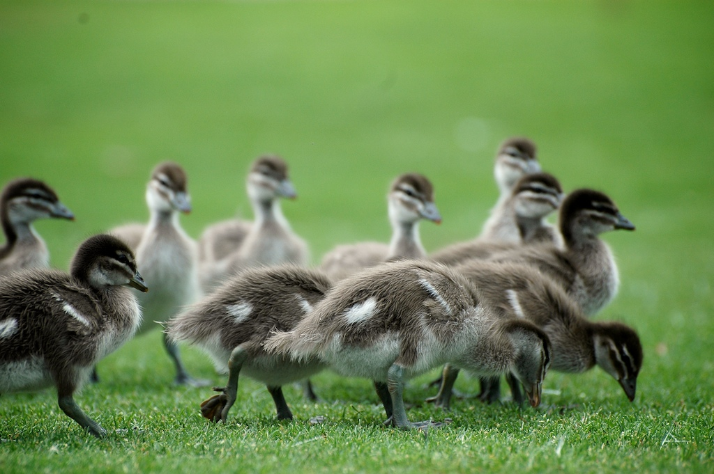 Australian Wood Duck ducklings, Kings Park, Western Australia, 2009.